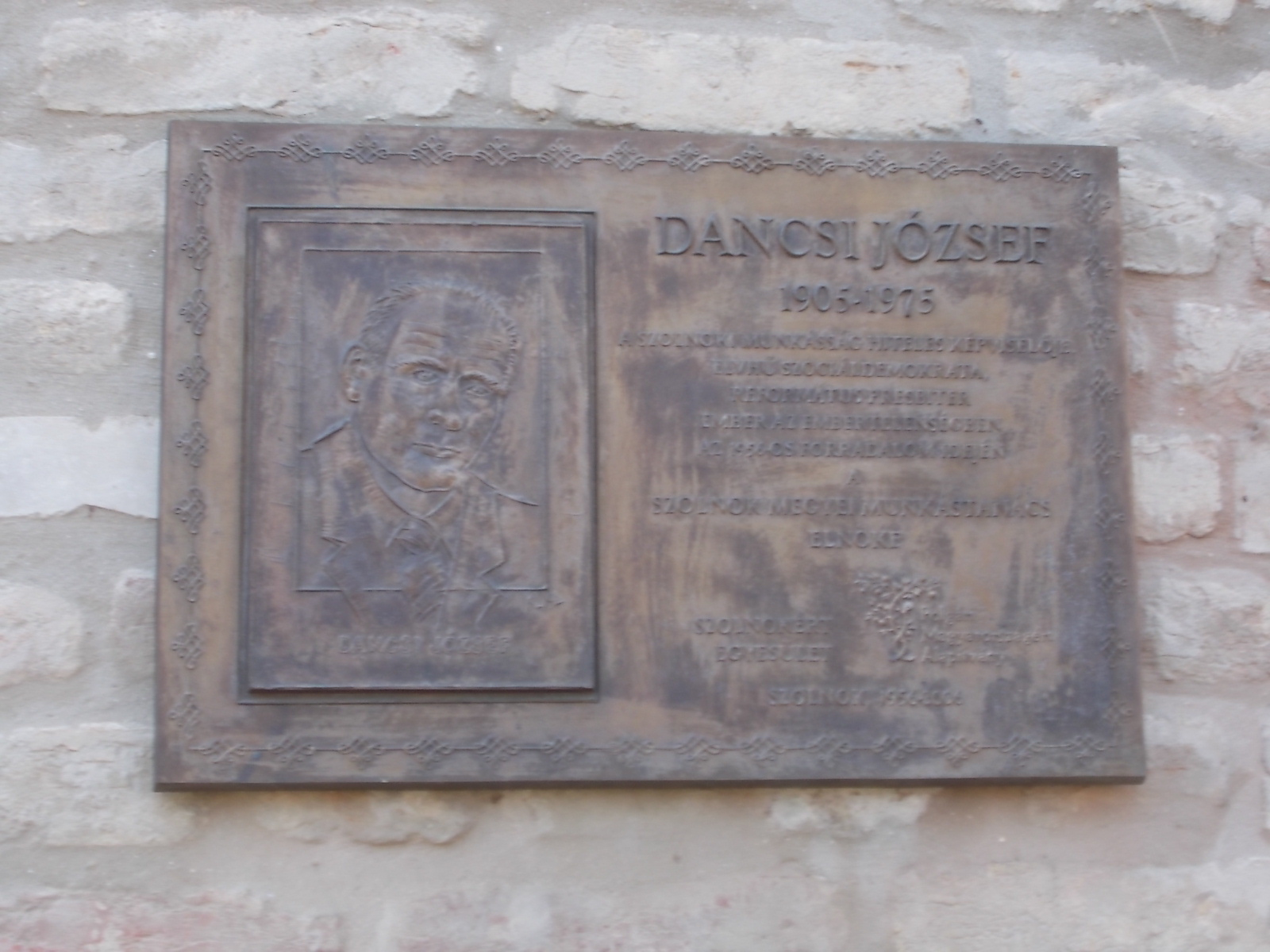 Relief of József Dancsi by Sándor Kligl on the facade of a unique style built house. - 1 or 3? Sóház Street, Szolnok, Jász-Nagykun-Szolnok County, Hungary.